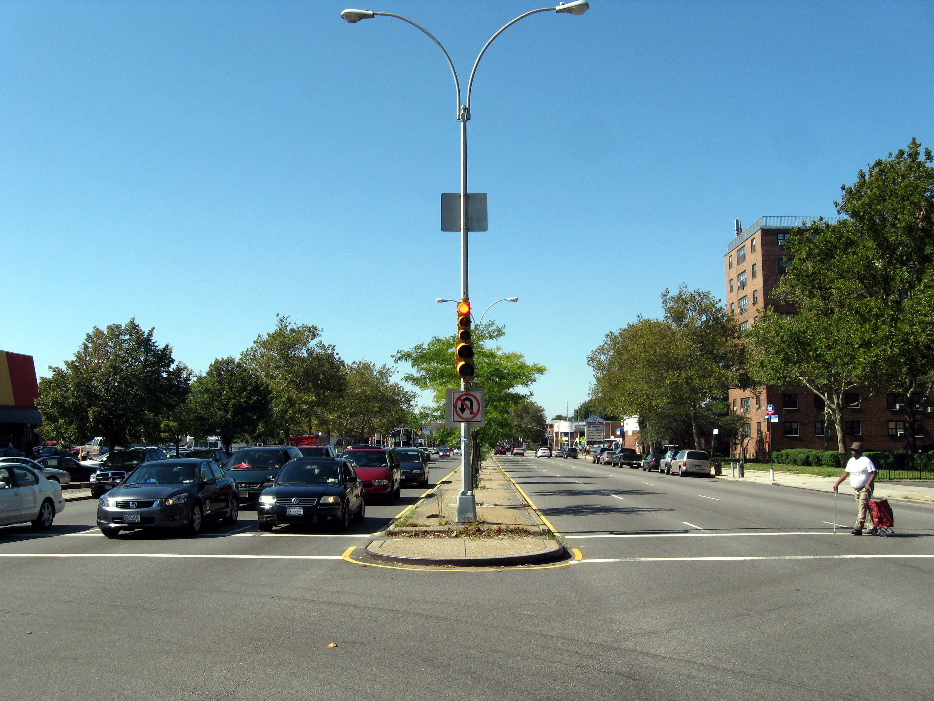 Looking northwest along Rockaway Parkway on a sunny midday from Skidmore Avenue